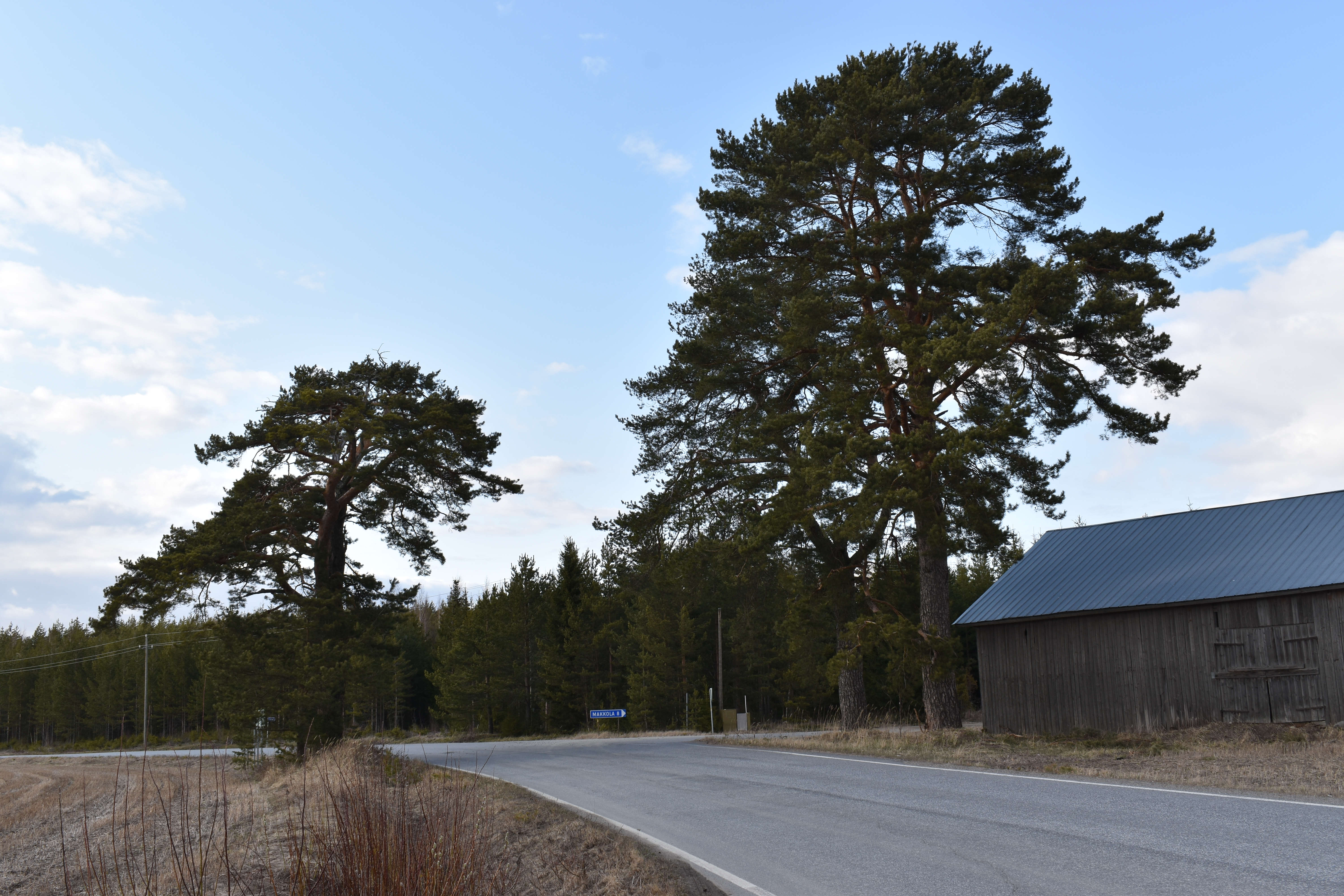 Village landscape of Niittylahti is characterized with two old pines on road 468 (seututie).